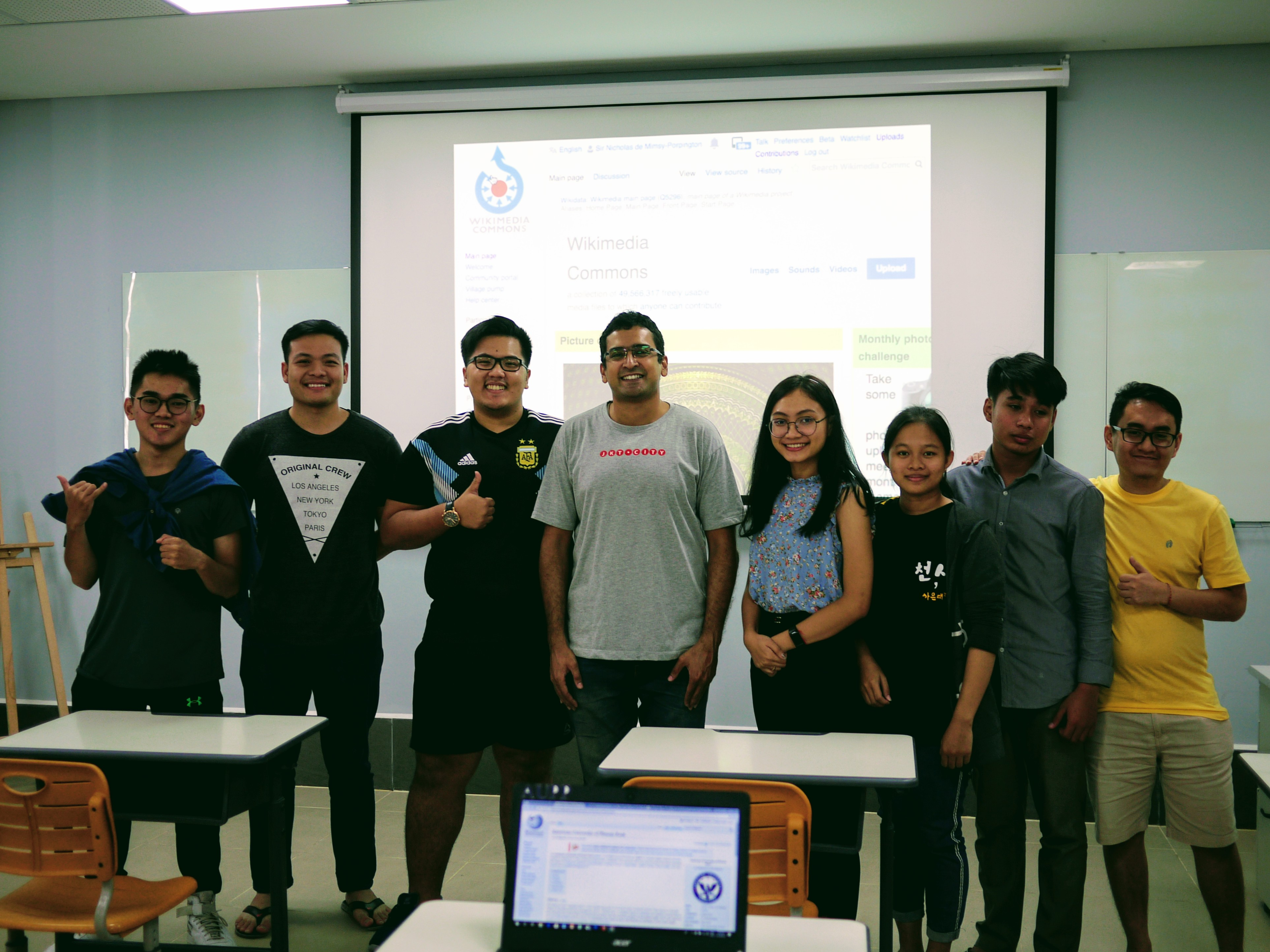 Wikipedia workshop at American University of Phnom Penh on 19 September 2018.